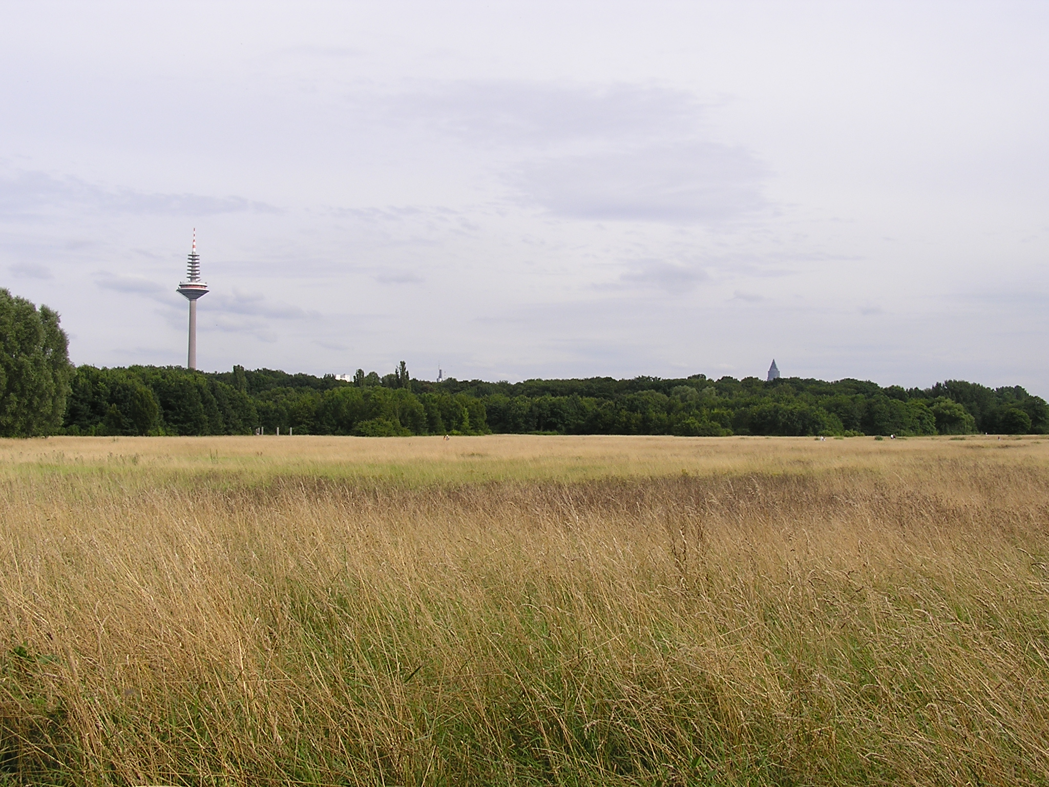 View from the Volkspark Niddatal